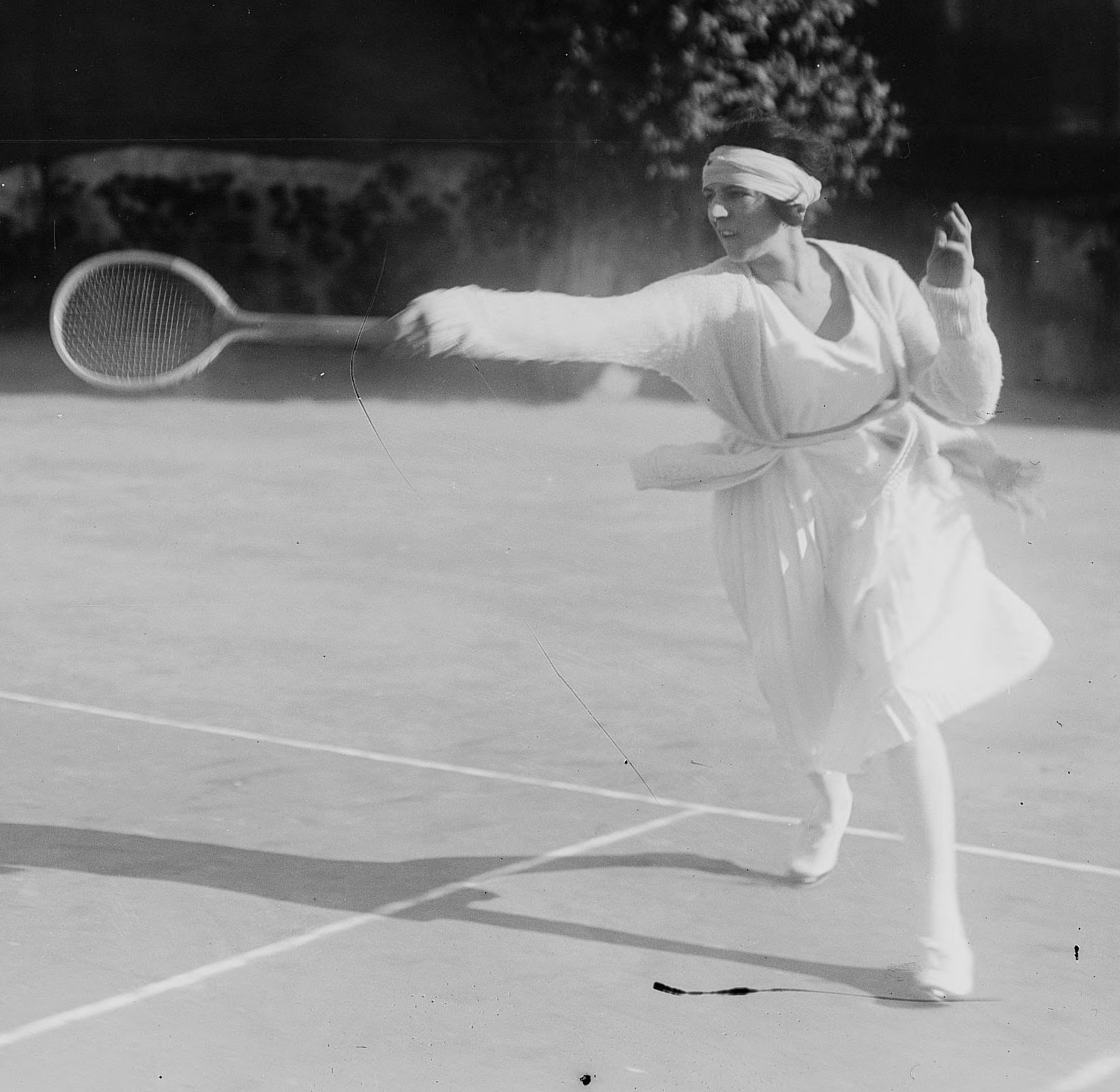 French tennis player Suzanne Lenglen at the 1920 Cannes tournament at the Carlton Club